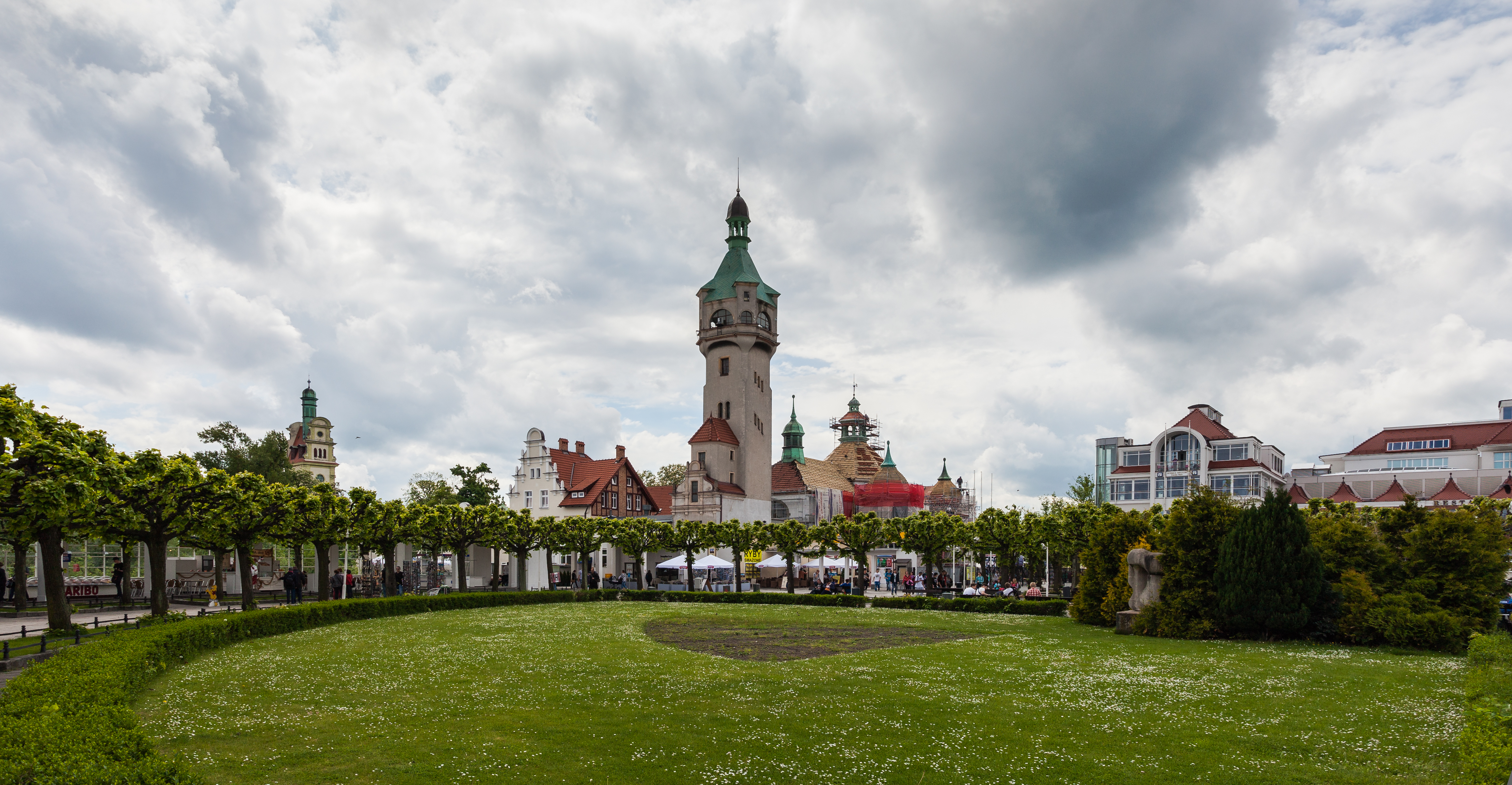 Lighthouse, Zdrojowy Square, Sopot, Poland